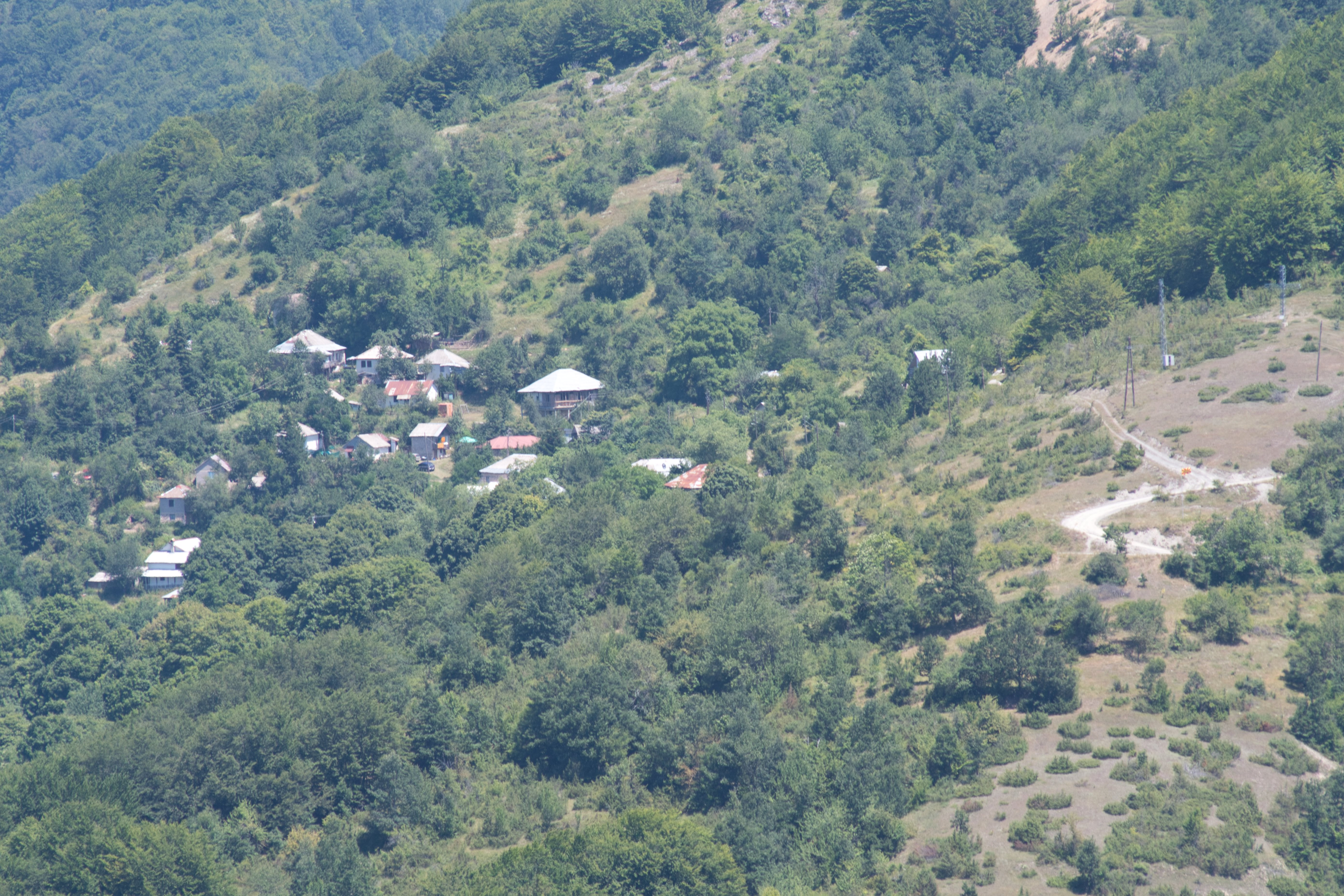 View of the village R'žanovo